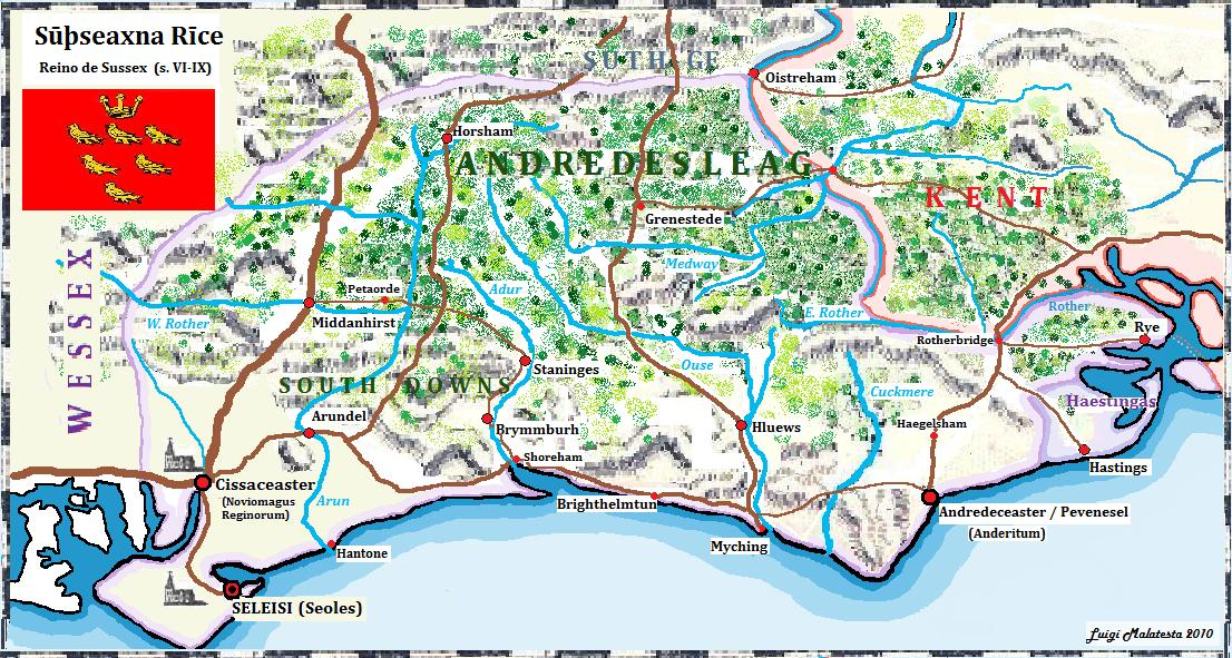 Old Kigdom of Sussex (Map)